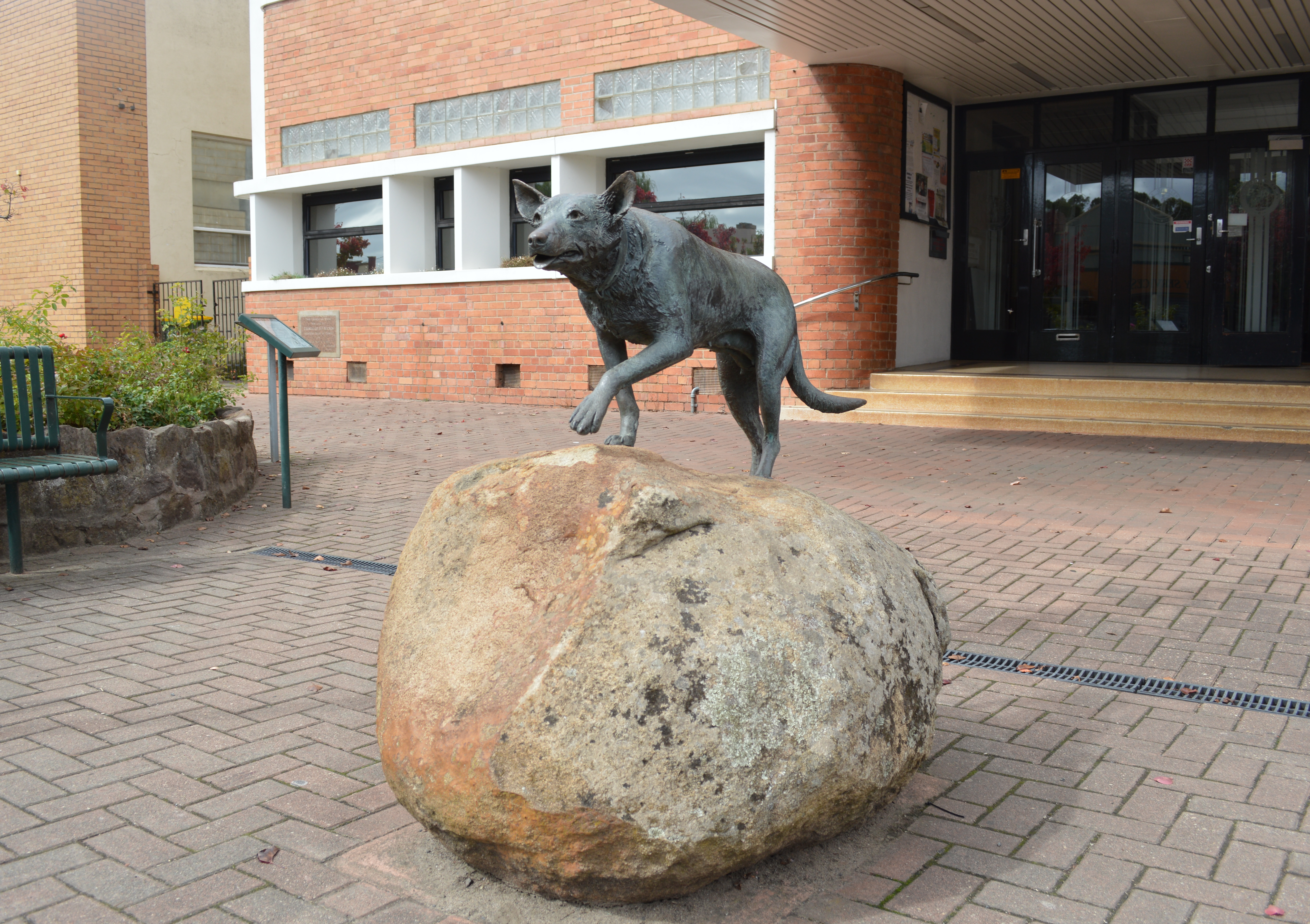 Monument to the Australian Kelpie at Casterton, Victoria